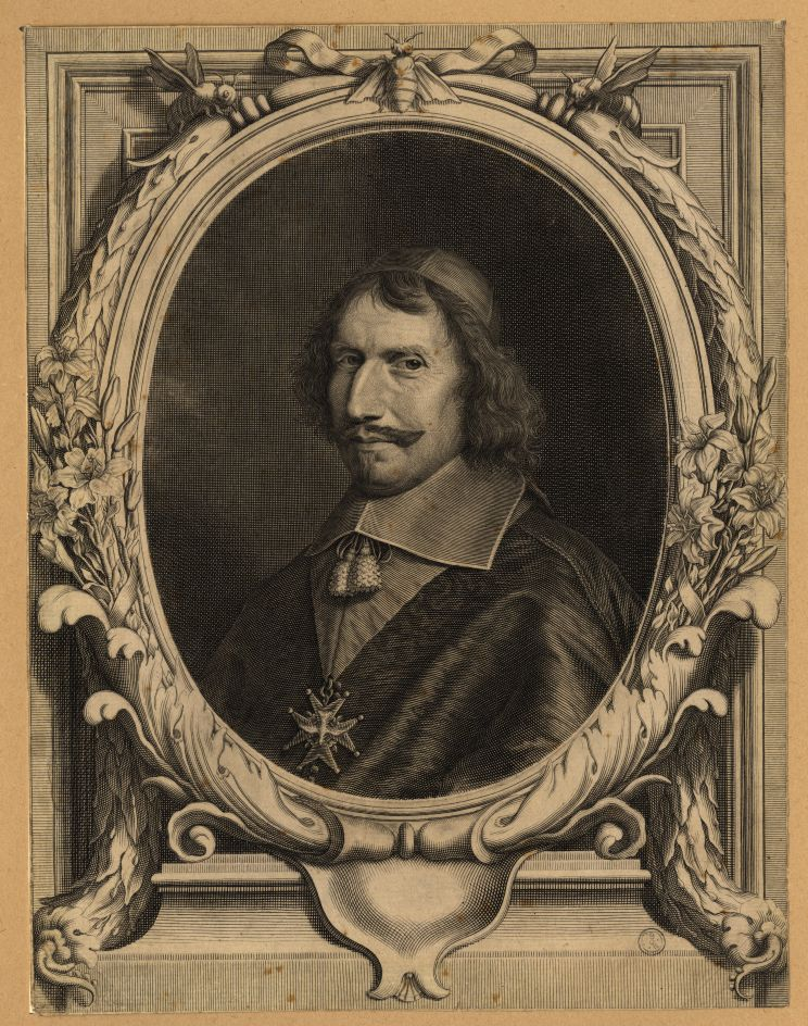 Cardinal Antonio Barberini (1607-1671)